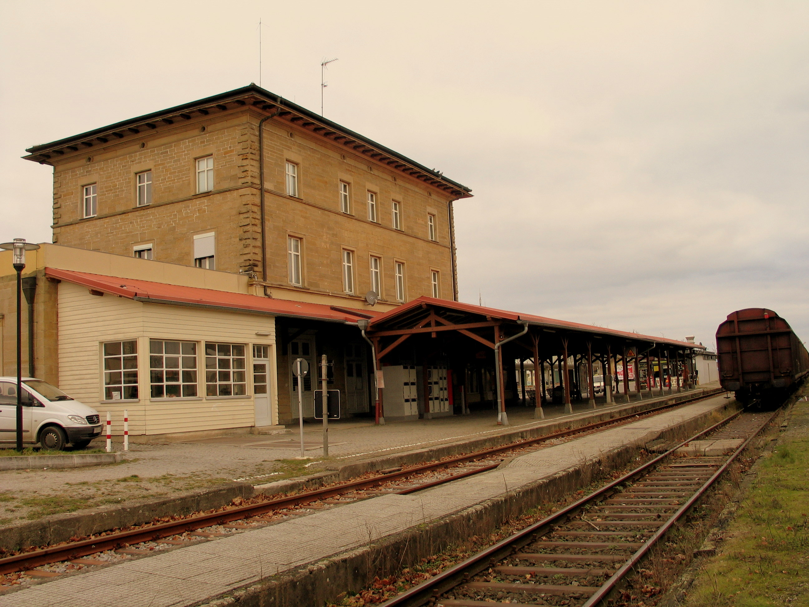 Rothenburg ob der Tauber, train station